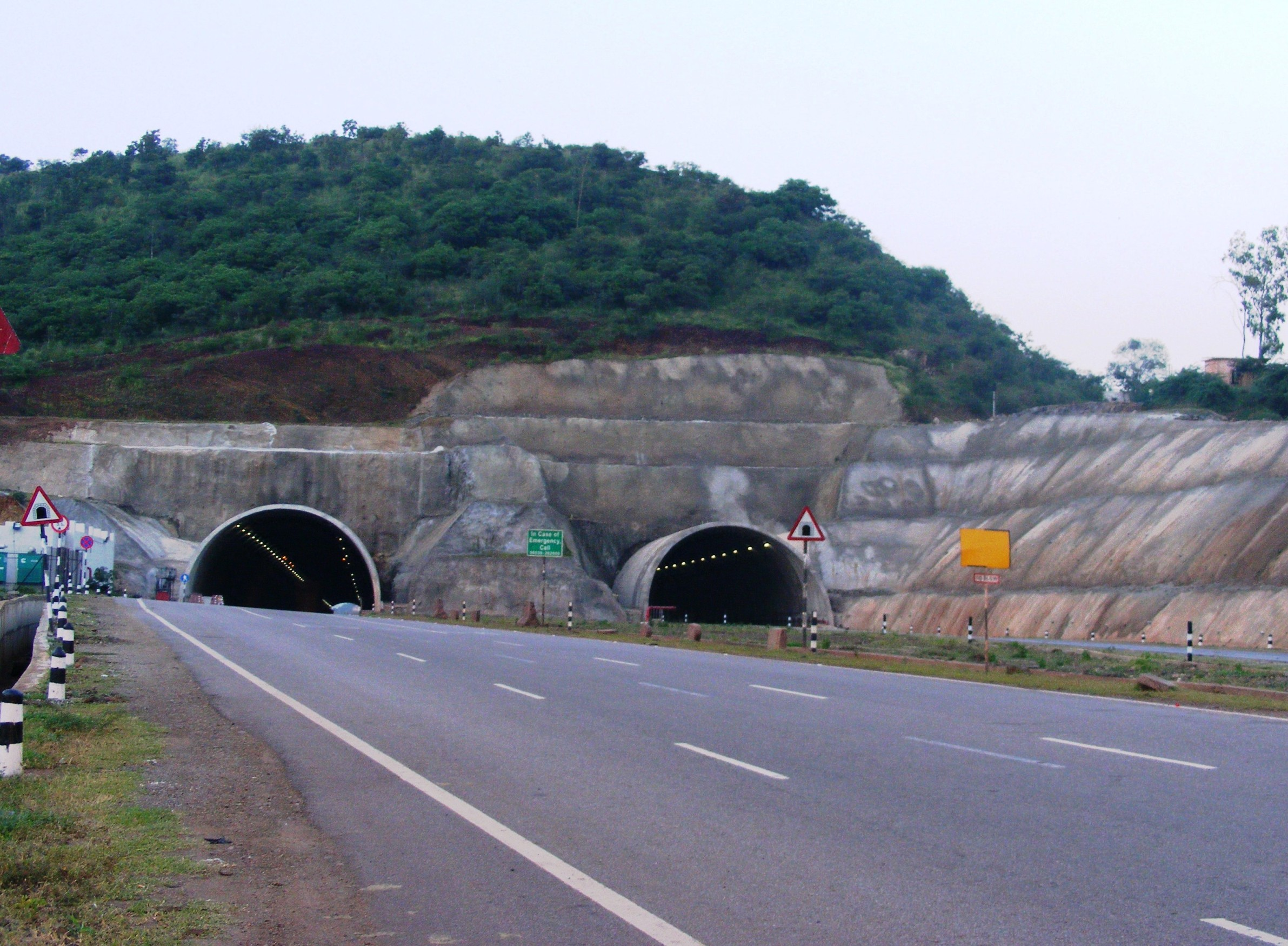 Hospet Tunne